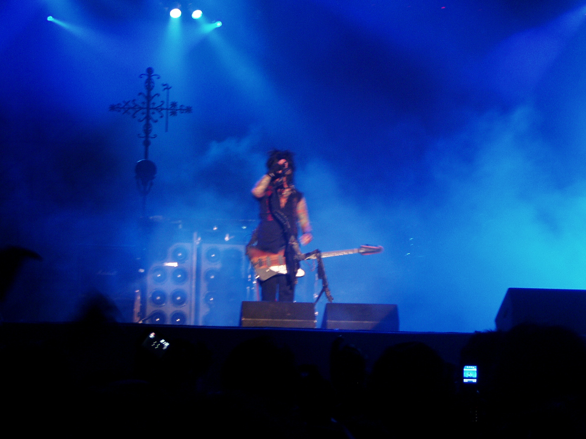 I Mötley Crüe al Gods of Metal 2007